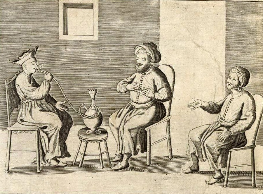 An Armenian smoking a hookah as a Mughal and a Malabar native look on. Detail from Carta Hydrographica y Chorographica de las Yslas Filipinas (1734).